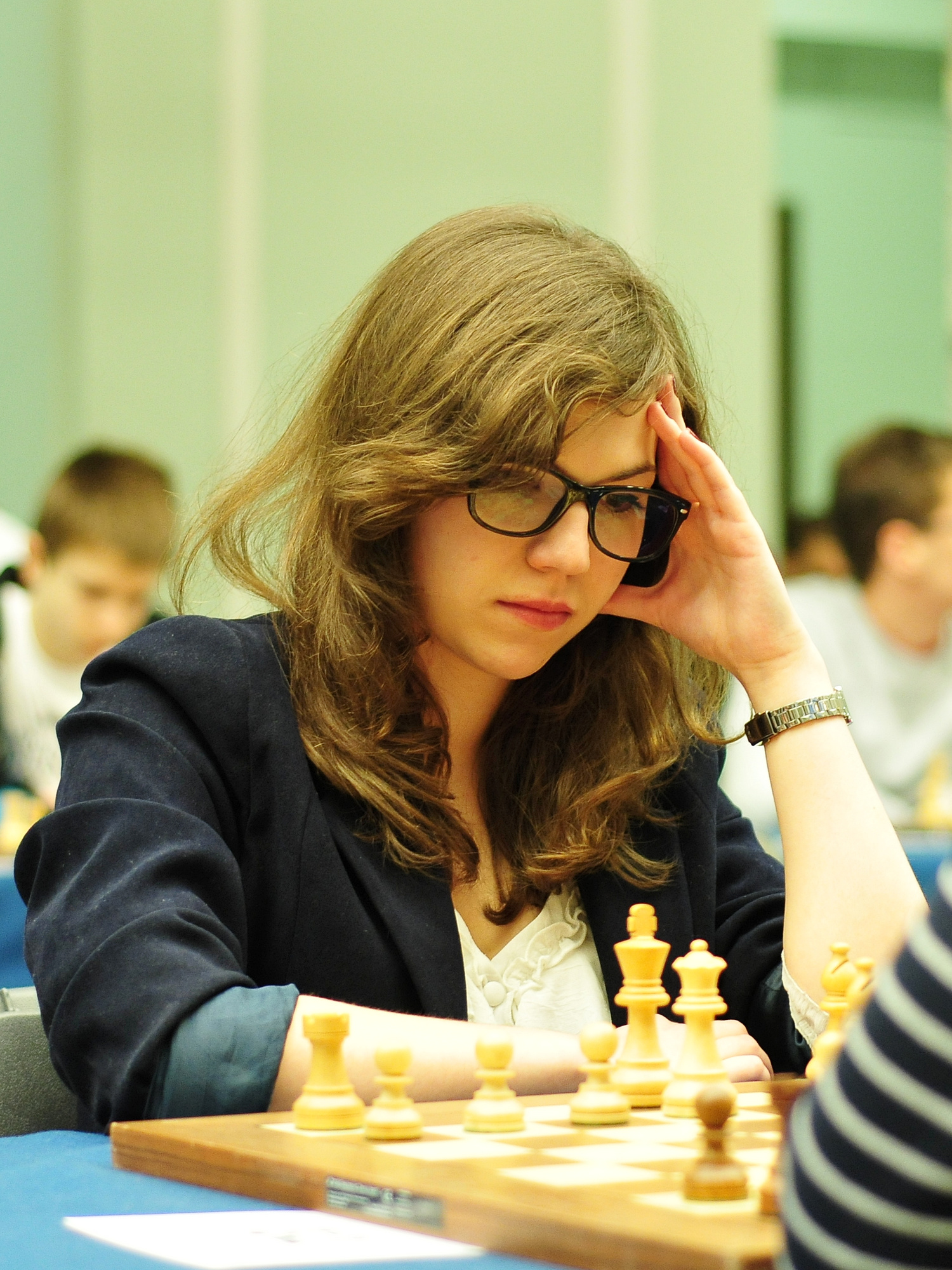 WFM Aleksandra Lach, European Rapid Chess Championship, Warsaw 2013.